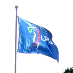 Flag of LPGA during 2008 Ricoh WBO